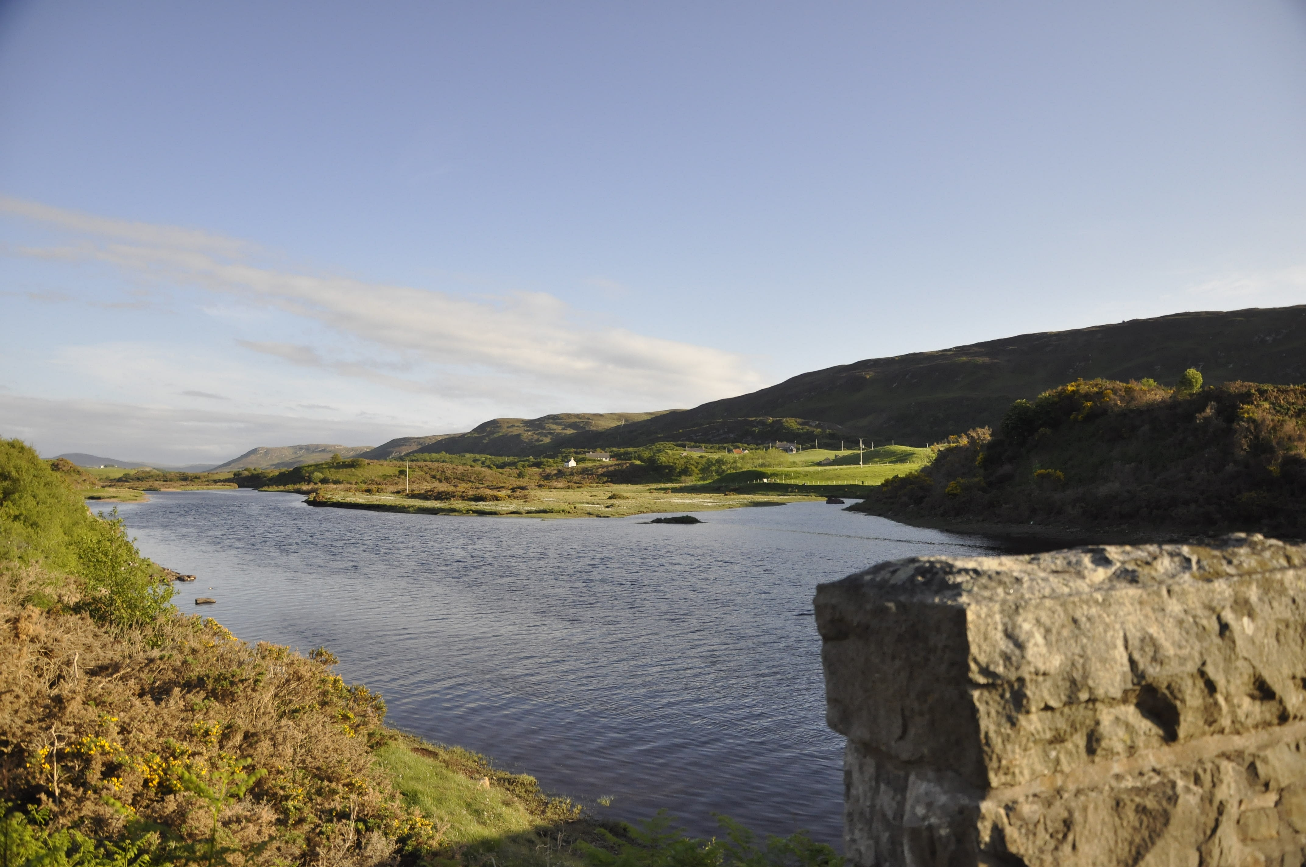 River Naver at the bridge of Bettyhill, Scotland